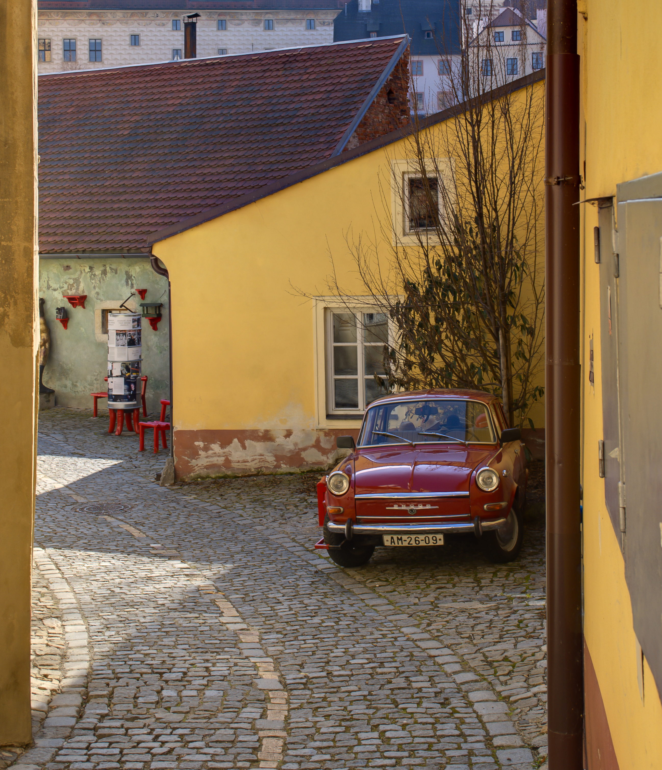 Street in Česky Krumlov